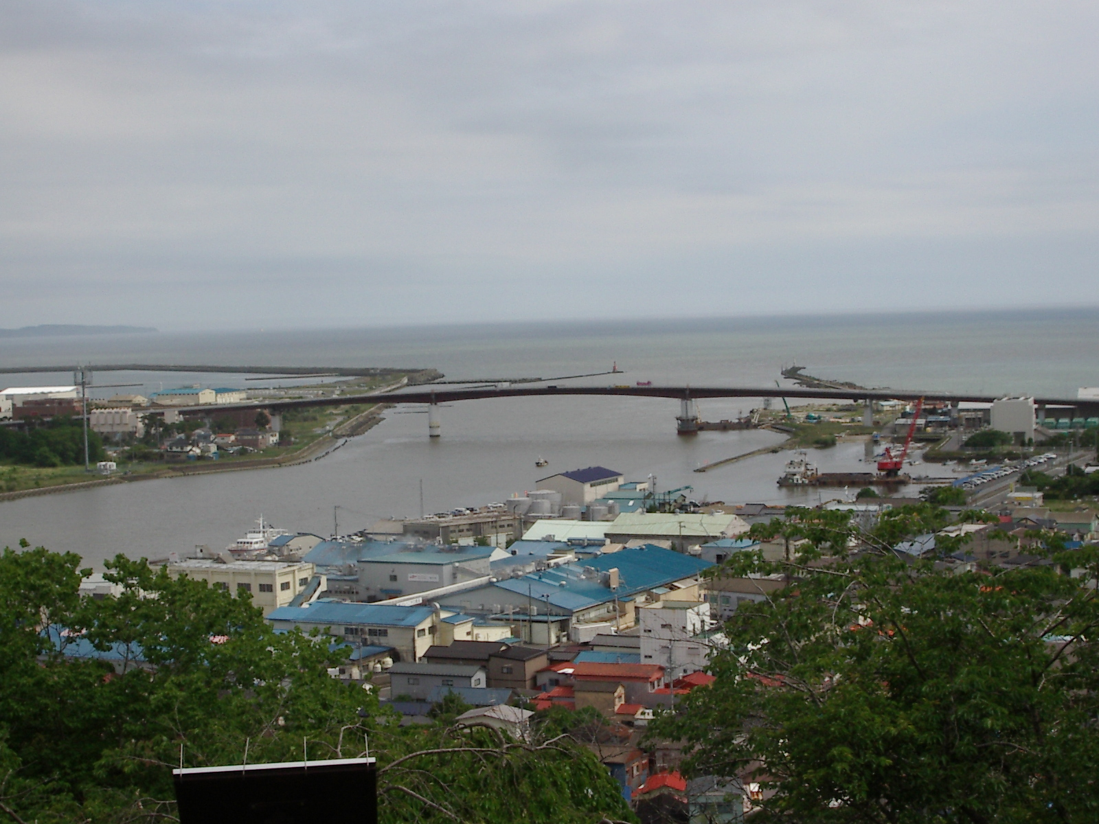 Hiyori Grand Bridge (Hiyori Ōhashi) over Old Kitakami River (Kyū-Kitakami-gawa) from the Hiyori-yama Park.